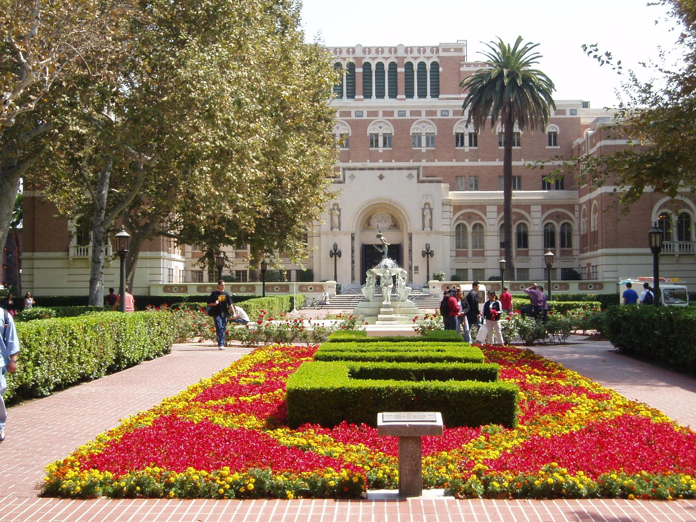 Doheny Library and gardens with fountain — at the University of Southern California. 1932 library in the Romanesque Revival style, by Ralph Adams Cram. Photo taken by Padsquad. Please observe license and properly cite in use outside Wikipedia.